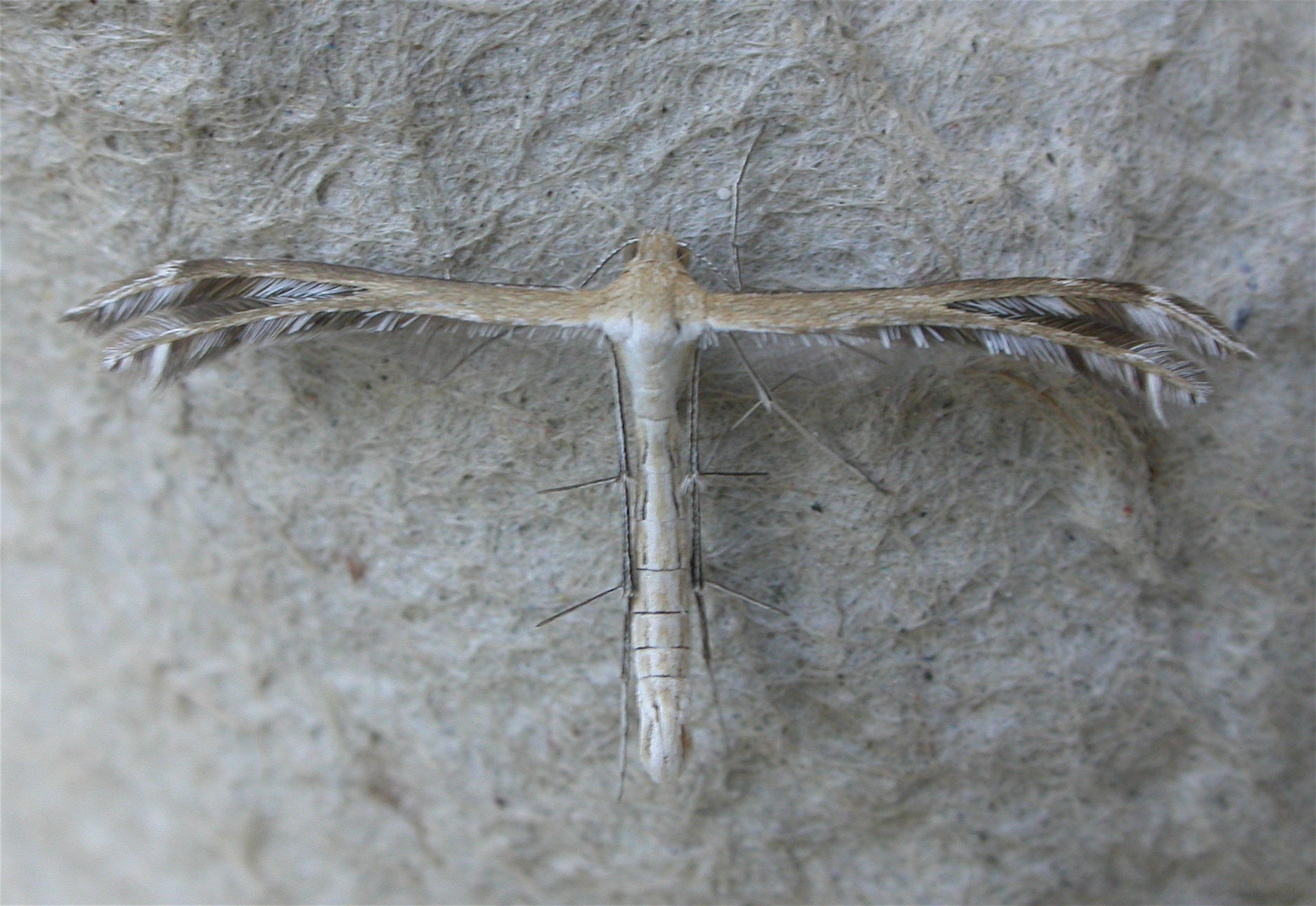 Stangeia xerodes (Meyrick, 1886), to MV light, Aranda, ACT, 15/16 October 2008